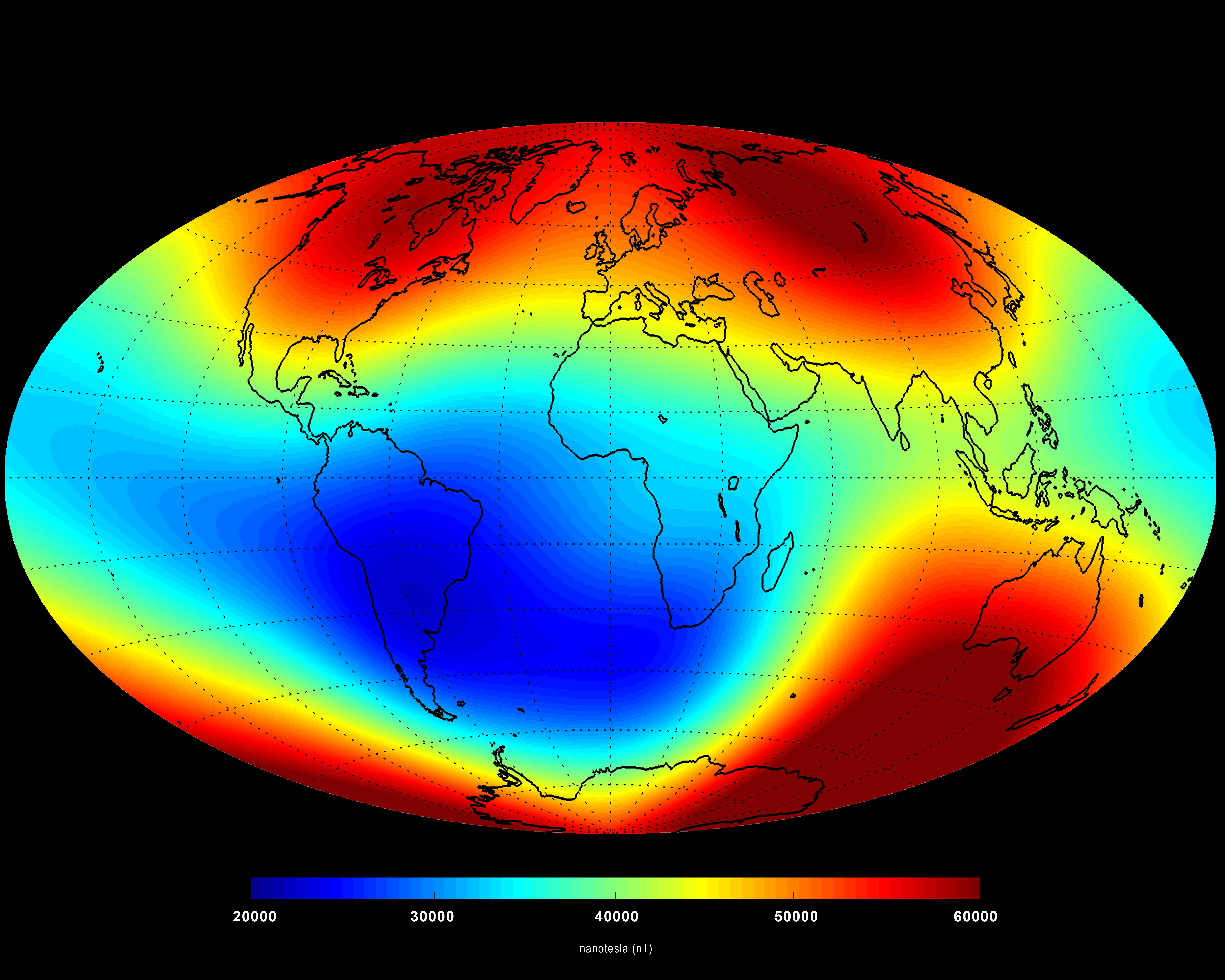 ‘Snapshot’ of the main magnetic field at Earth’s surface as of June 2014 based on Swarm data. The measurements are dominated by the magnetic contribution from Earth’s core (about 95%) while the contributions from other sources (the mantle, crust, oceans, ionosphere and magnetosphere) make up the rest. Red represents areas where the magnetic field is stronger, while blues show areas where it is weaker.